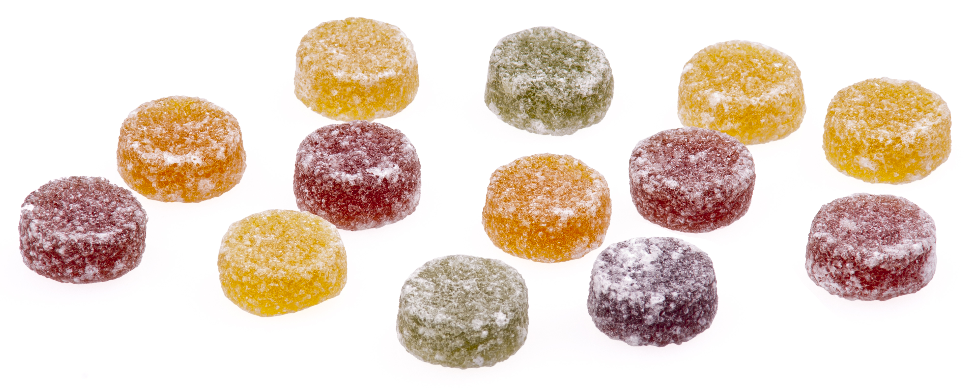 Rowntree's Fruit Pastilles, made by Nestle.